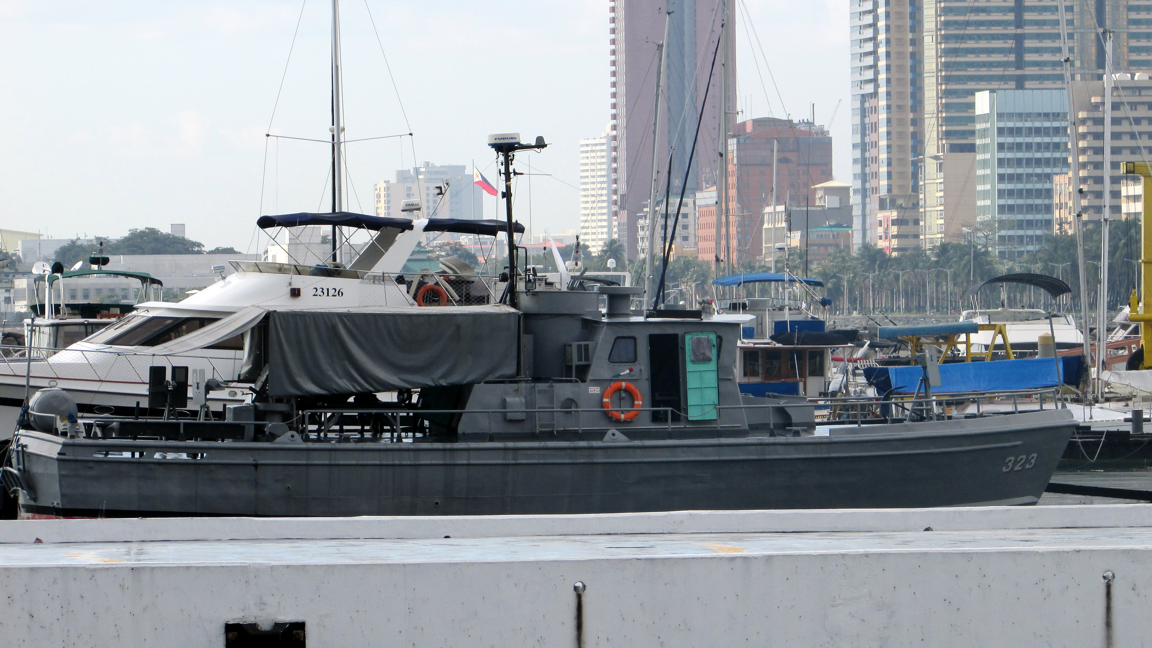 Side view of DF-323, a former De Havilland 9209 class Patrol Craft of the Philippine Navy. Photo taken at the Naval Station Jose Andrada.